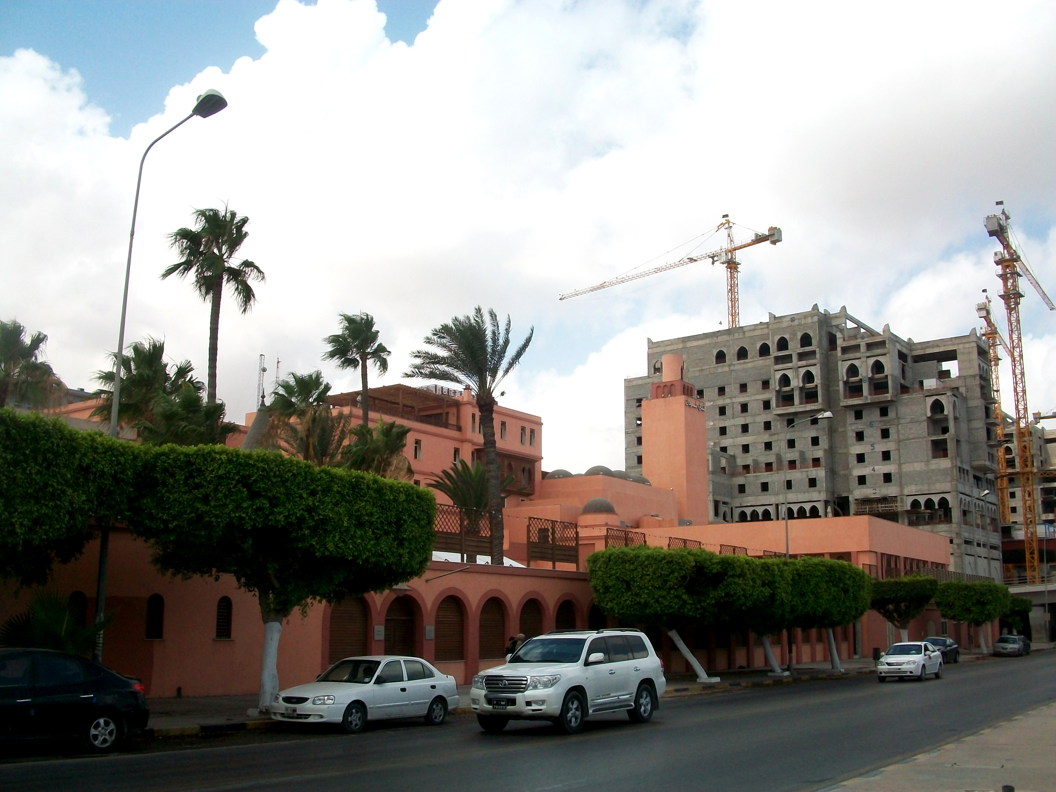 A picture of the historic Waddan Hotel in Libya's capital Tripoli which was recently rennovated and is now managed by the InterContinental Hotels Group. In the background is the Ghazala Intercontinental Hotel (under constructino as of July 2012).